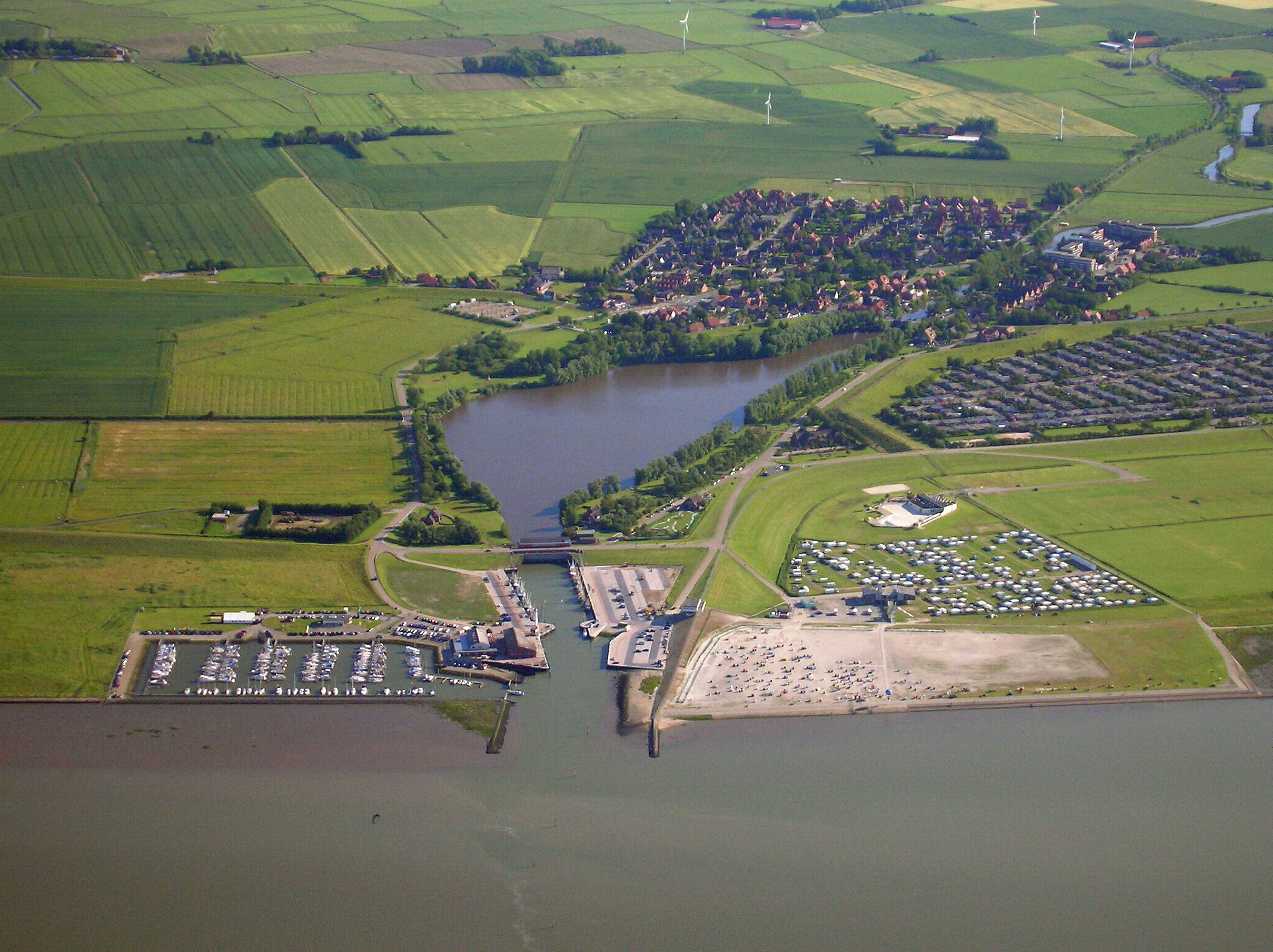 Dornumersiel (Dornum, Germany). Photo was taken shortly after taking off from Langeoog airport.